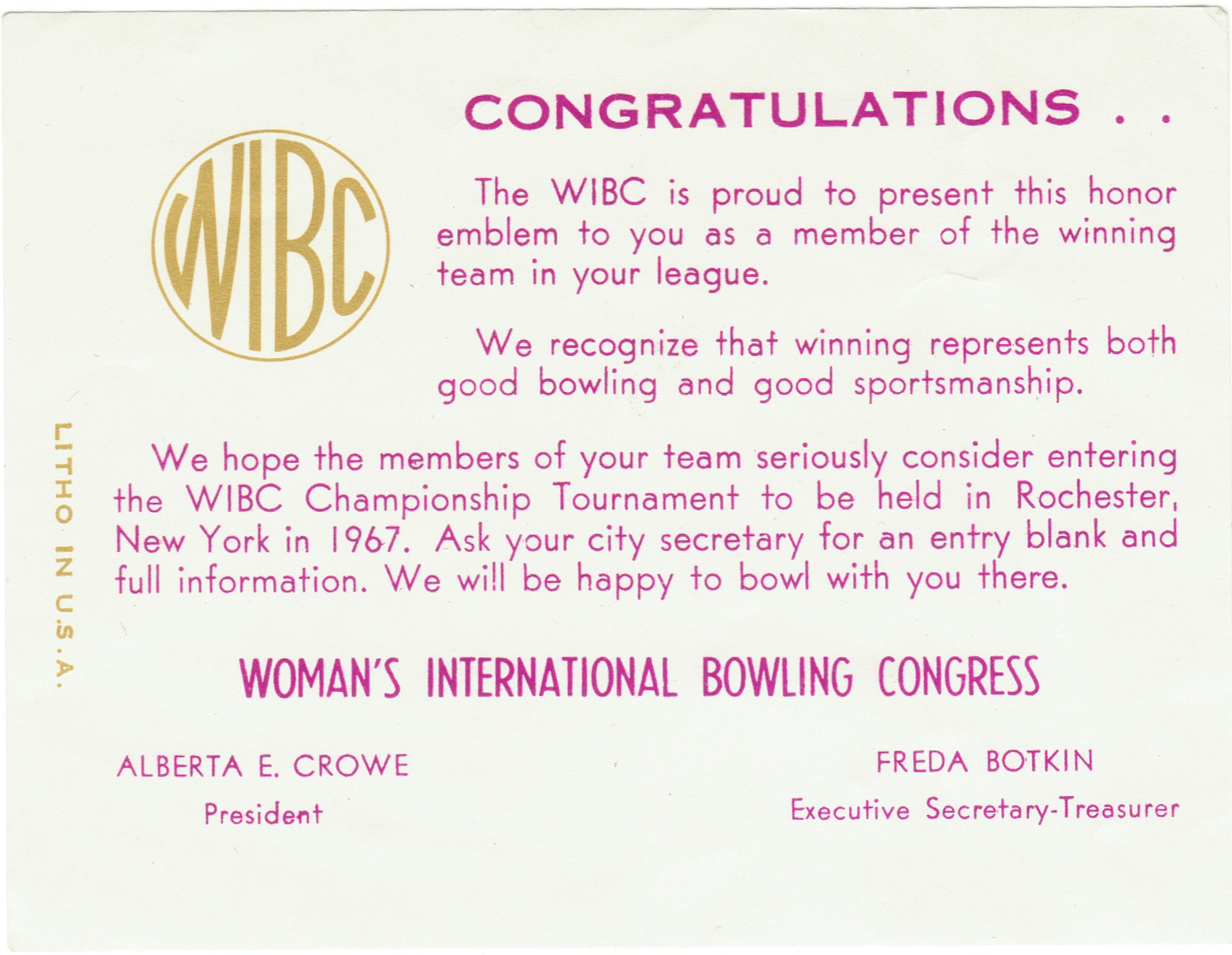 Congratulations note included with 1966 league champion emblem. President Alberta E. Crowe Executive Secretary-Treasurer Freda Botkin